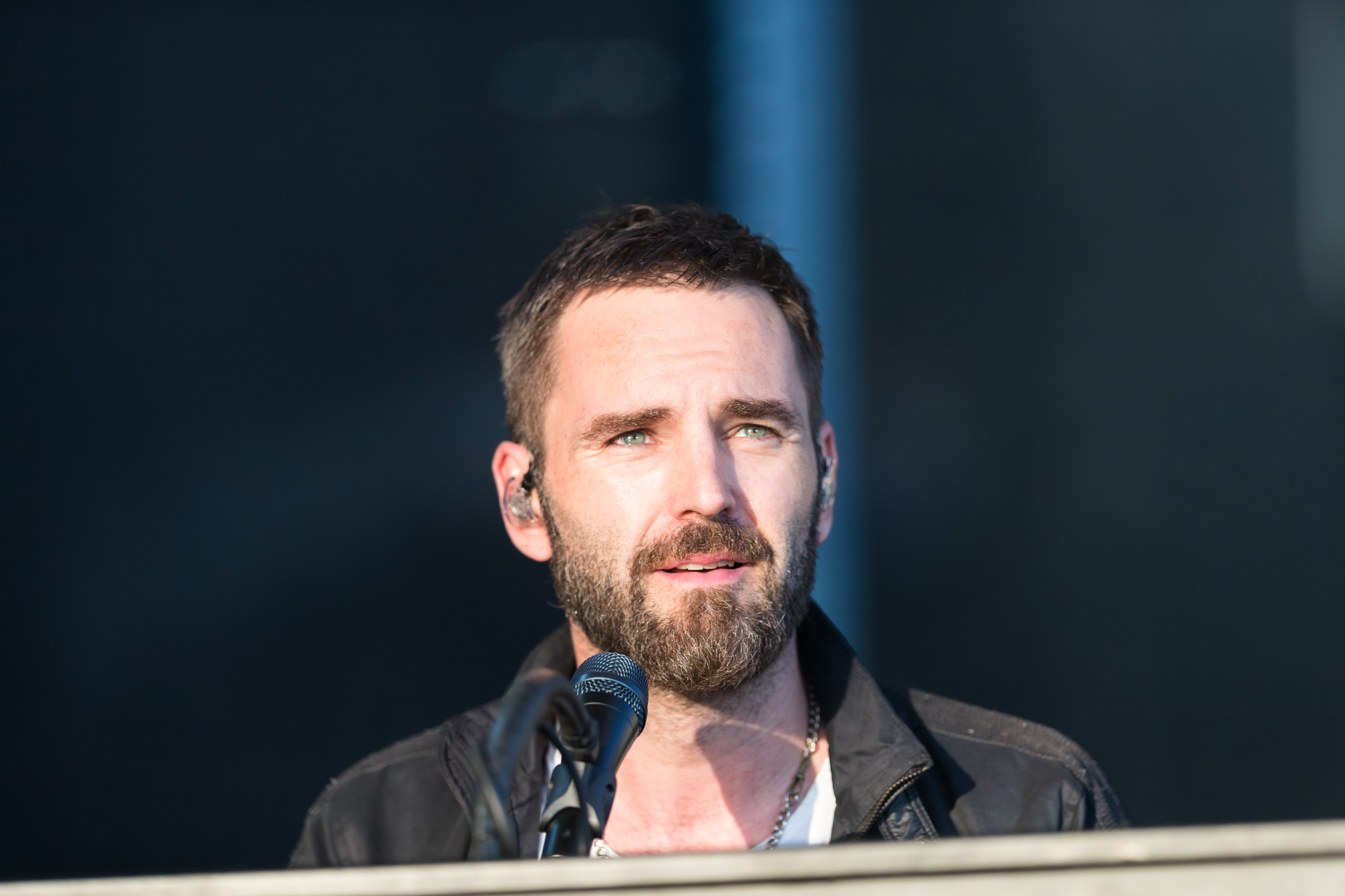 Snow Patrol @ Rock am Ring 2018